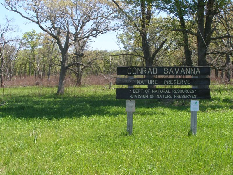 Open forest of the Conrad Savanna Nature Preserve (Oak Savanna) in Newton County, Indiana